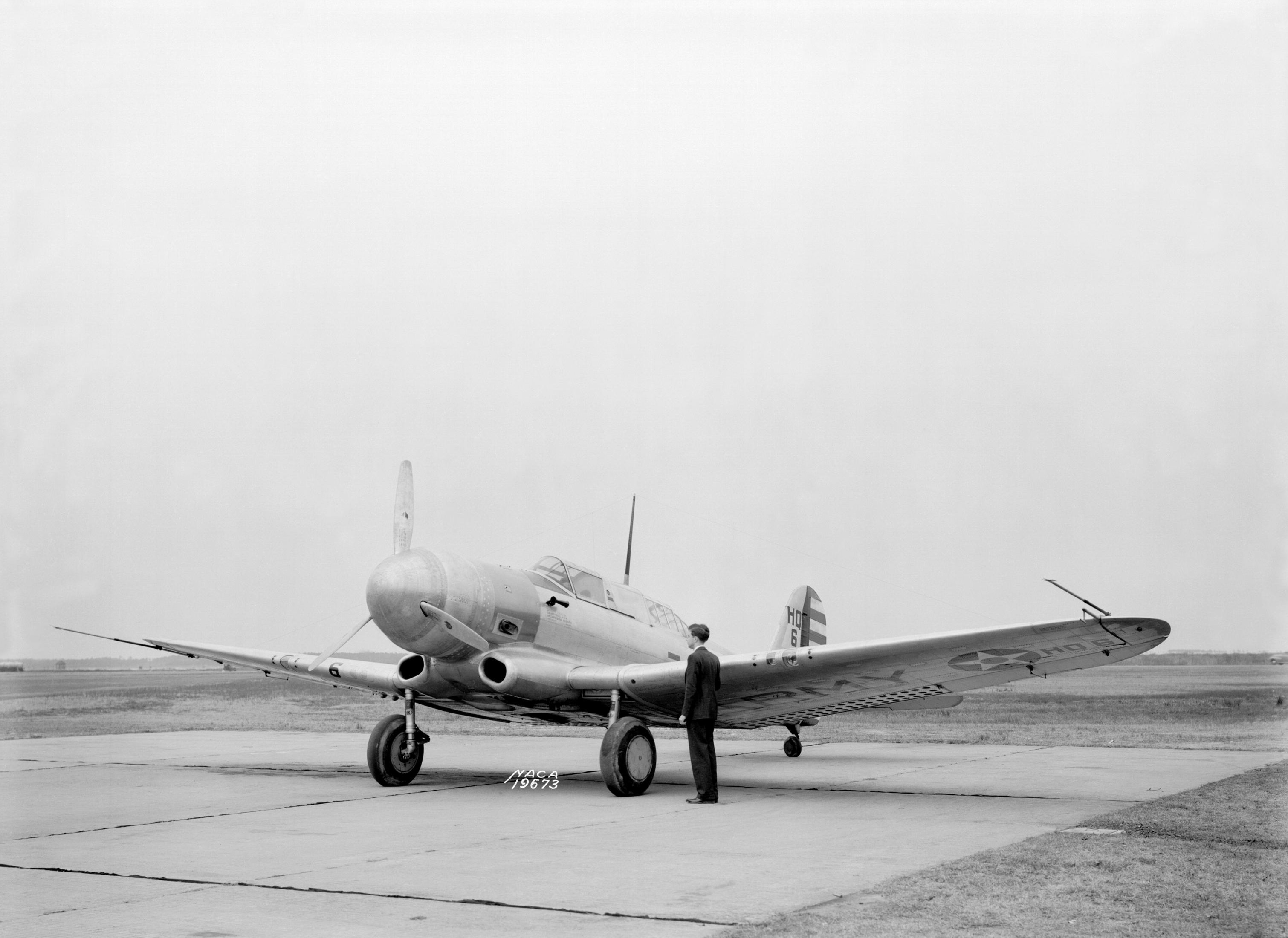 A U.S. Army Air Corps Northrop A-17A at the National Advisory Committee for Aeronautics, Langley, Virginia (USA), 3 April 1940.